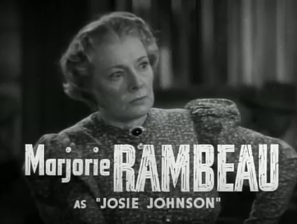 Marjorie Rambeau in 20 Mule Team, by Richard Thorpe (1940)